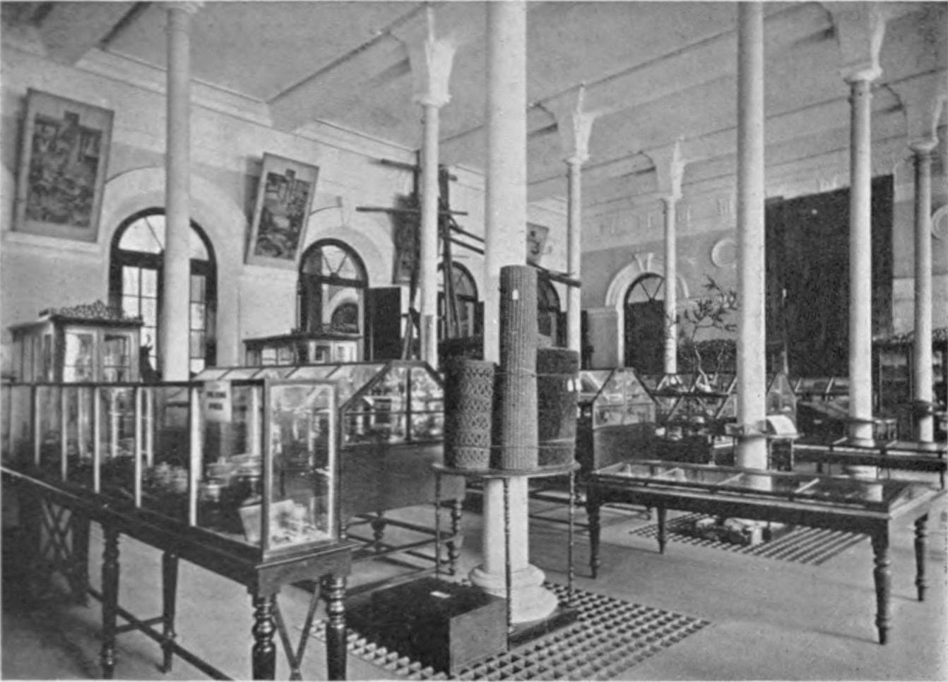 The museum - Hong Kong